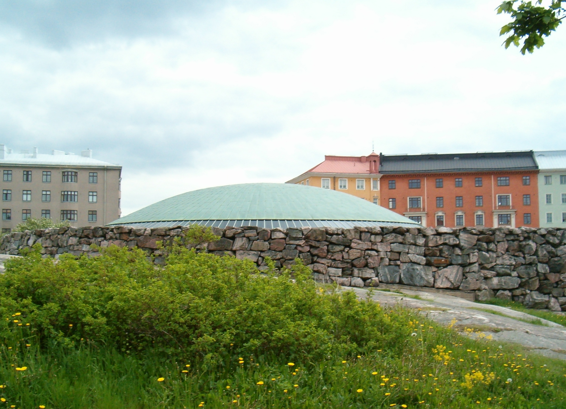 The Temppeliaukio Church in Helsinki. See also: Image:Temppeliaukio Church 2.jpg, Image:Temppeliaukio Church 3.jpg